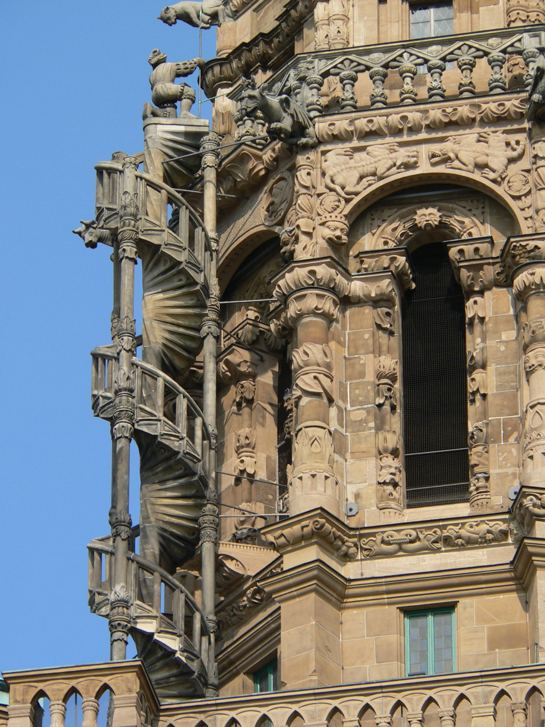 Spiral staircase (outdoor) of the Church Kilianskirche of Heilbronn - Germany, 2007, by J. Köhler